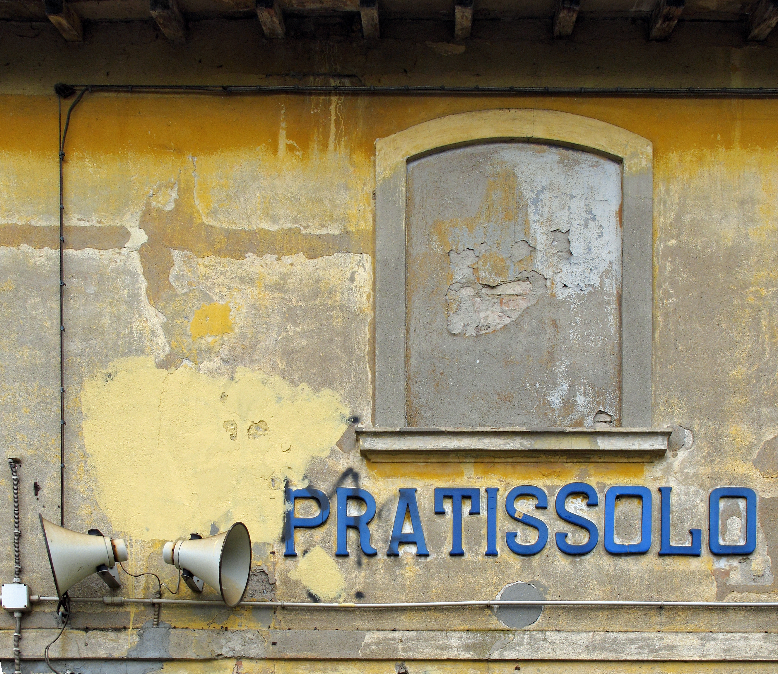 Pratissolo Train Station - Scandiano, Reggio Emilia, Italy